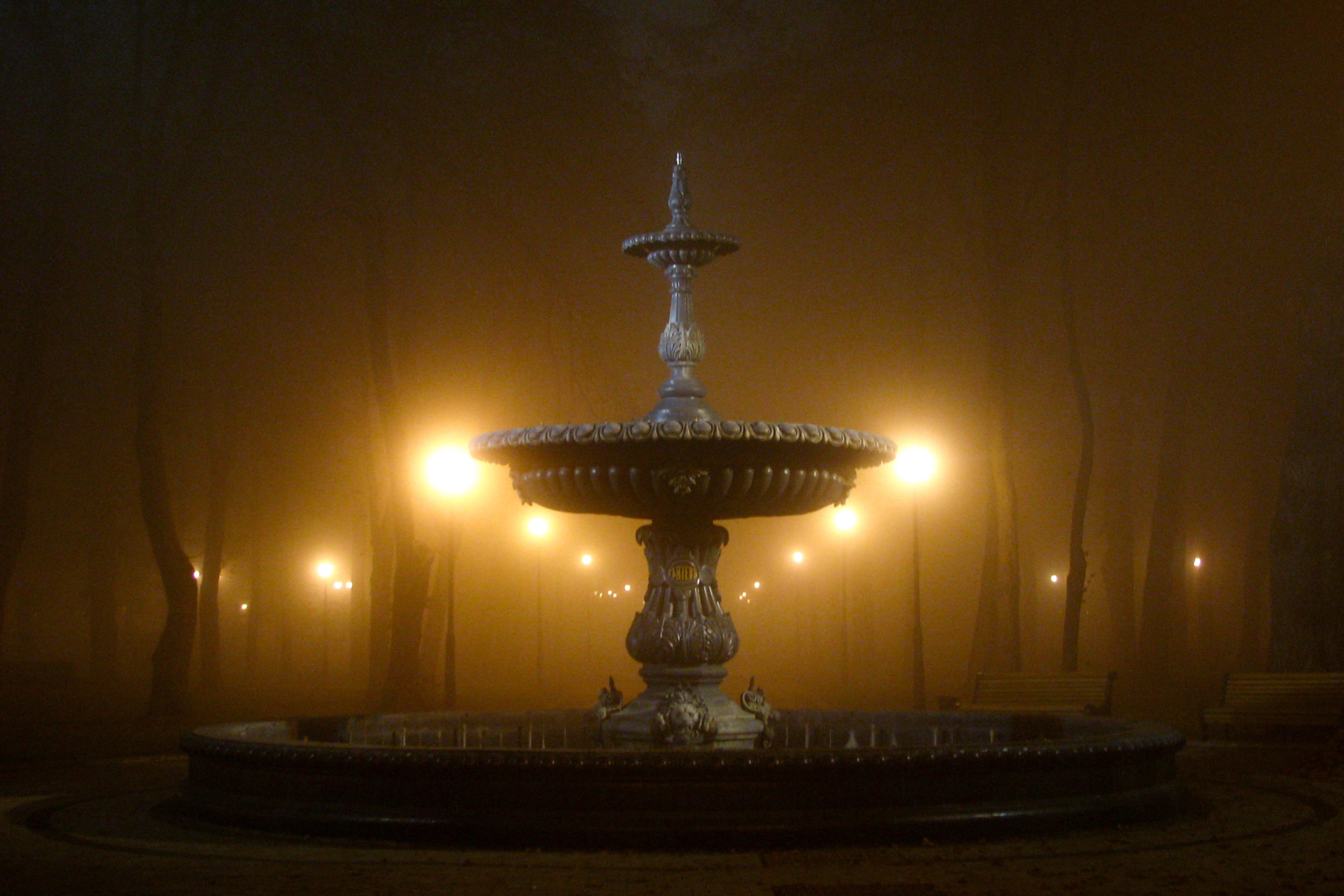 Fountain in Mariinsky park, night view. Kiev, Ukraine, Eastern Europe.